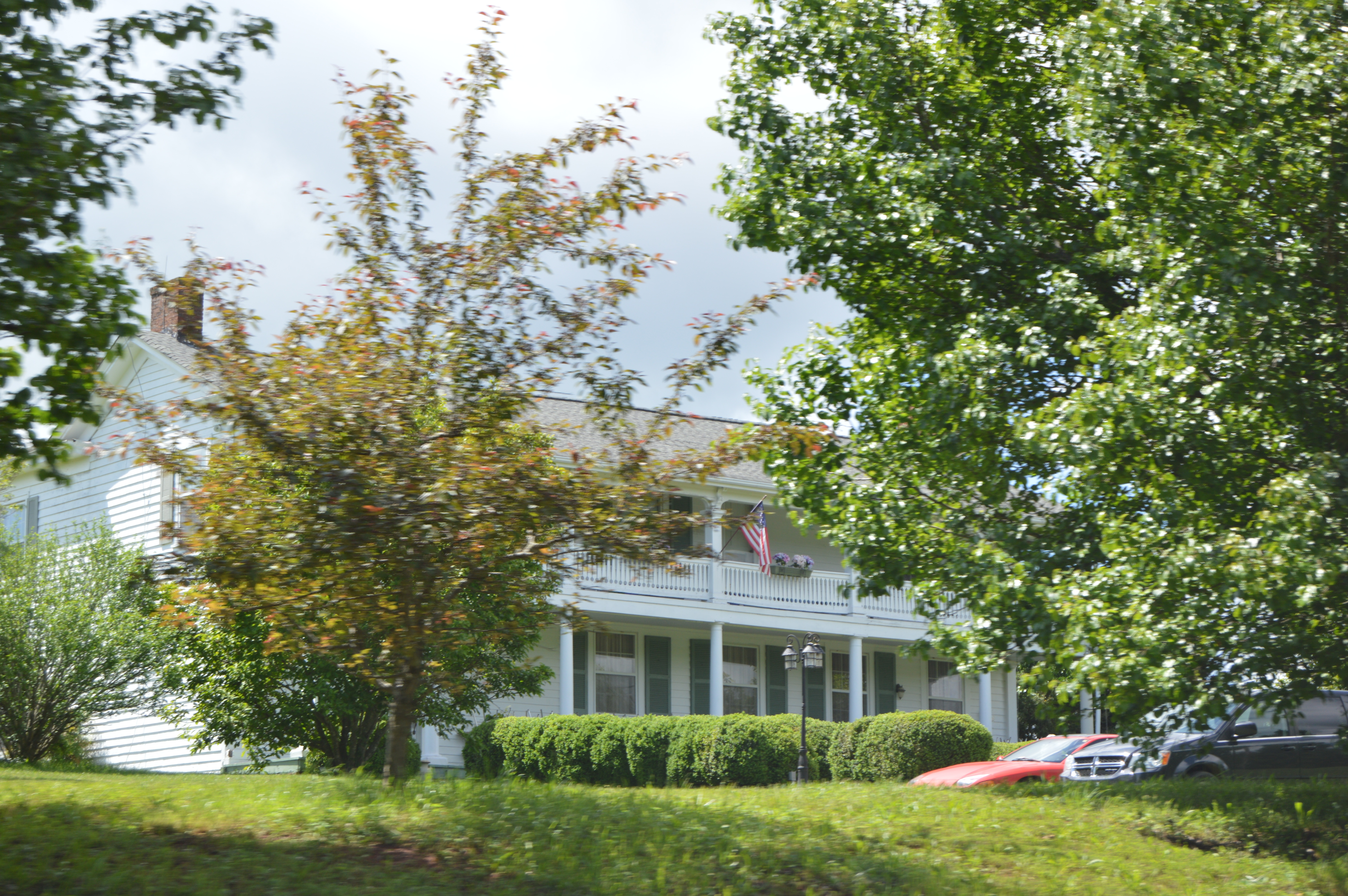 Front of the Brooks-Brown House, located on Truevine Road just north of Chestnut Mountain Road in Franklin County, Virginia, United States. Built in 1830, it is listed on the National Register of Historic Places.